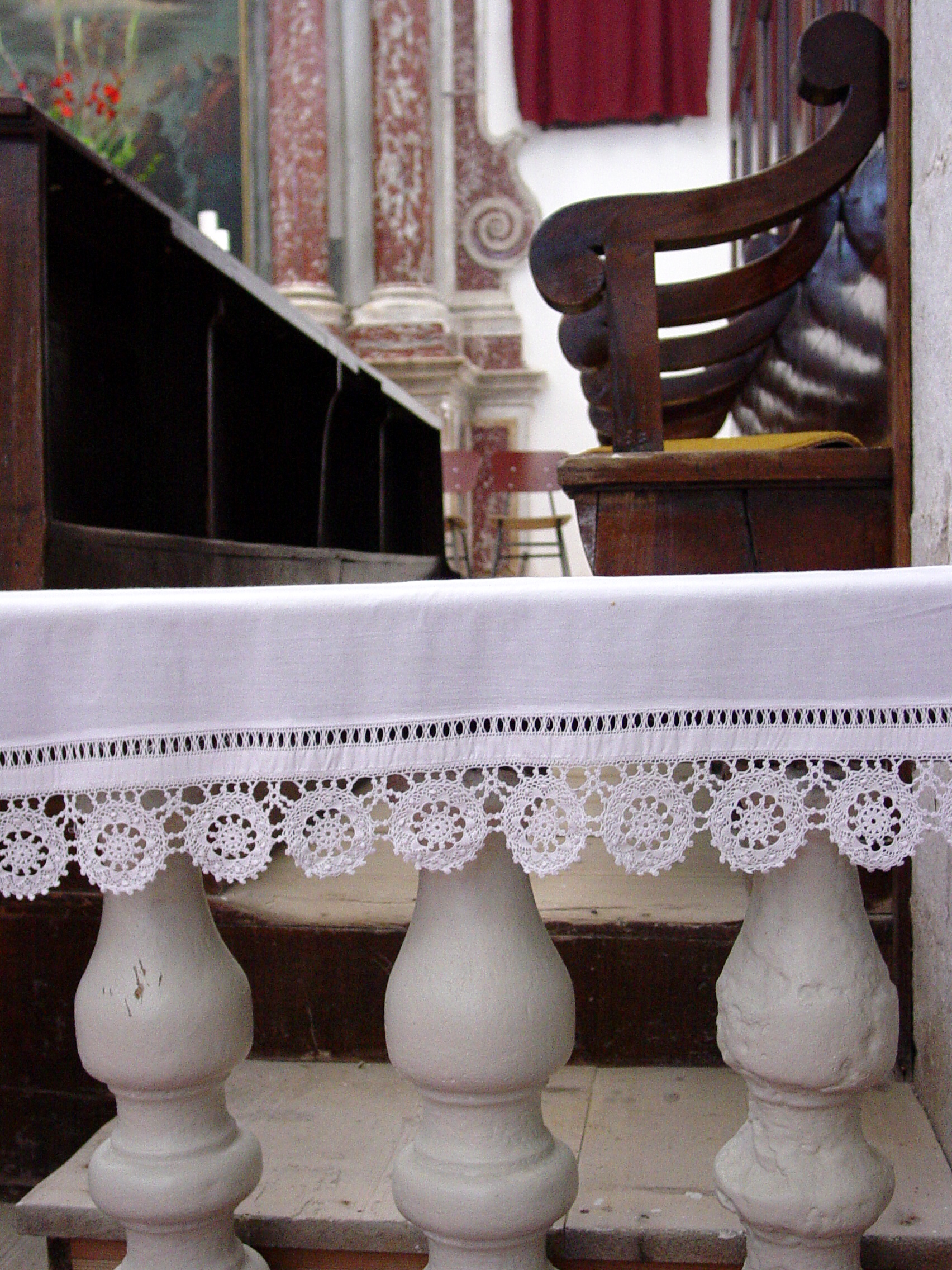 Pag Cathedral with local lace, Pag, Croatia. June 2004.